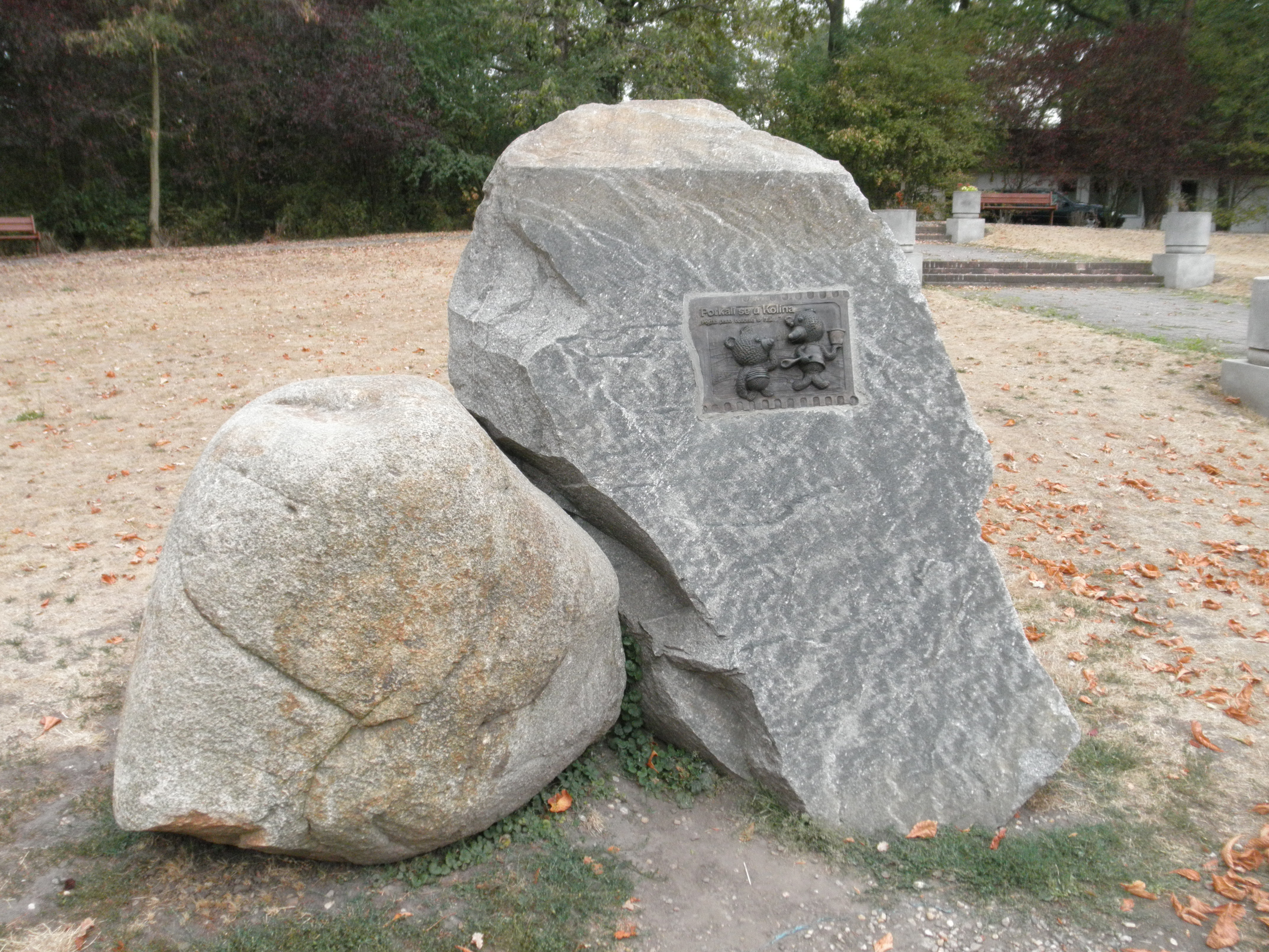 Memorial to bears from Kolín from the TV series Hey Mister, Let's Play! in Kolín. The memorial was made by Pavel Radl in 2010.